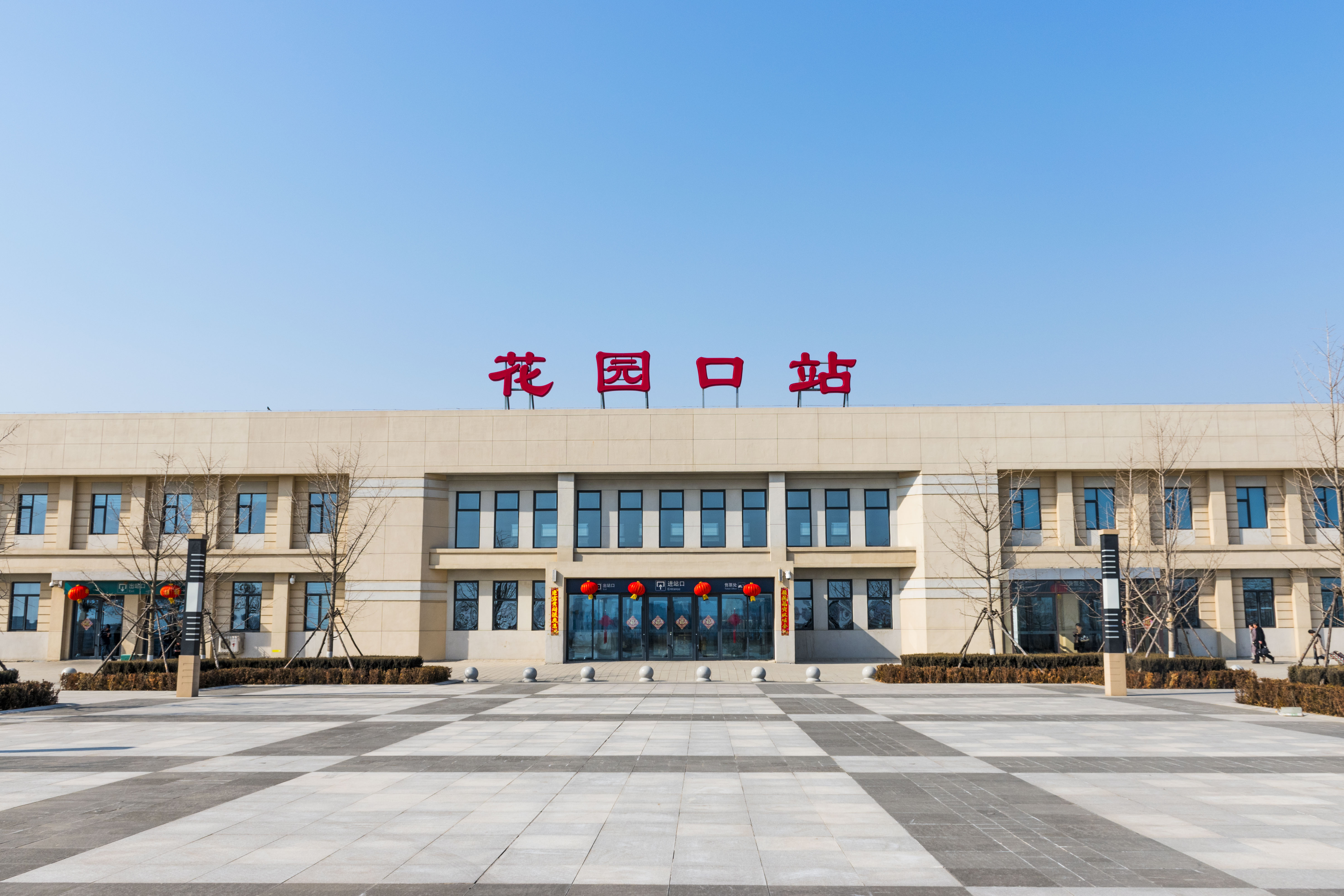 Huayuankou Railway Station